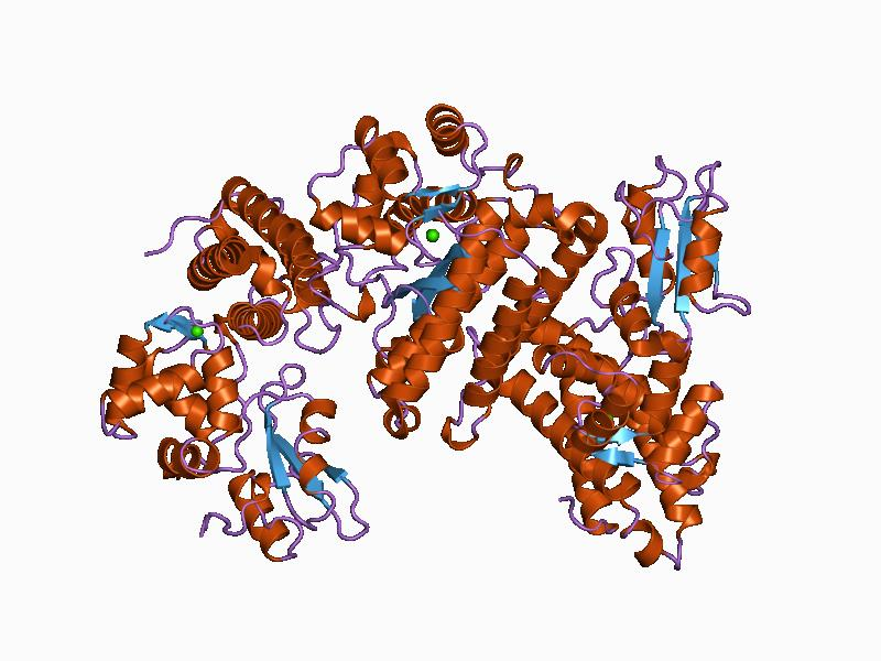 Cartoon representation of the molecular structure of protein registered with 1b47 code.